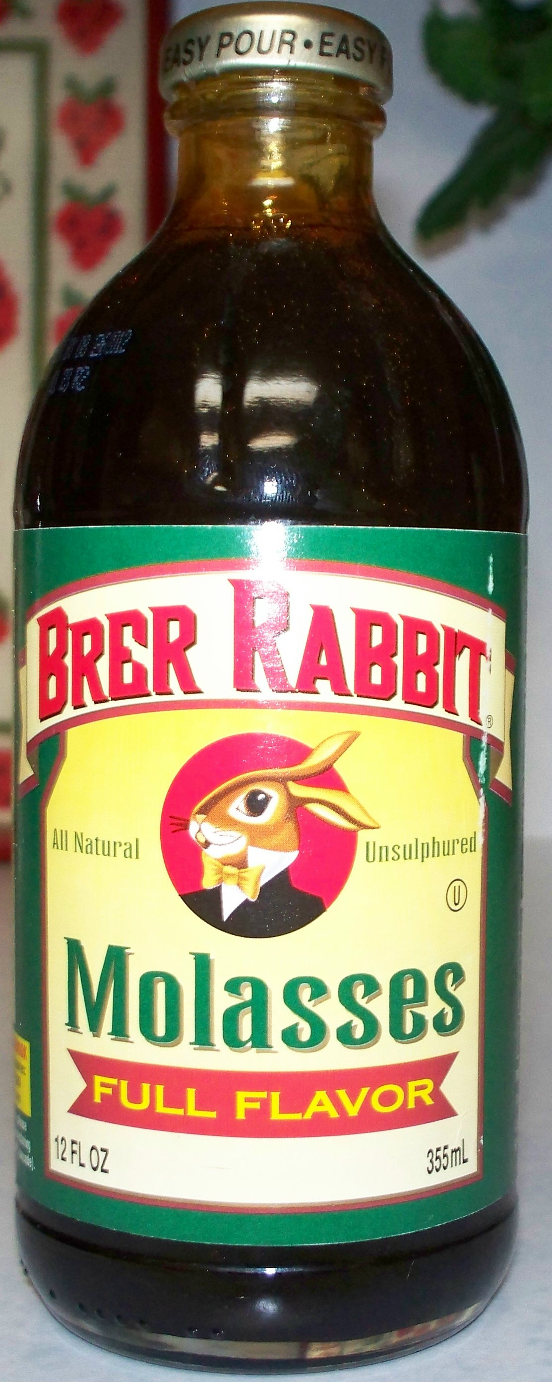 A bottle of store bought Molasses